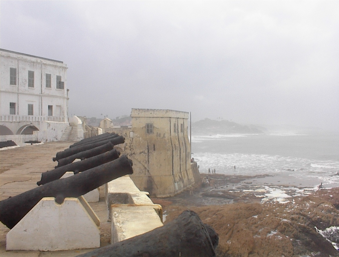 The cannons of Cape Coast Castle, a slave trading castle. Picture taken looking down from the castle walls to the beaches of Cape Coast, the old colonial capital of the Gold Coast (modern Ghana).